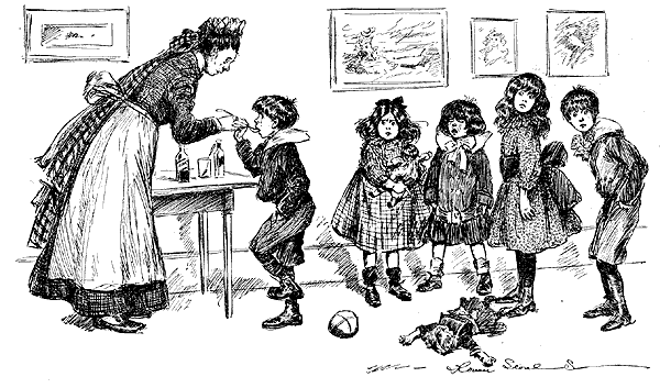 "Childhood's Happy Hour", from Harper's Monthly Magazine for August 1903